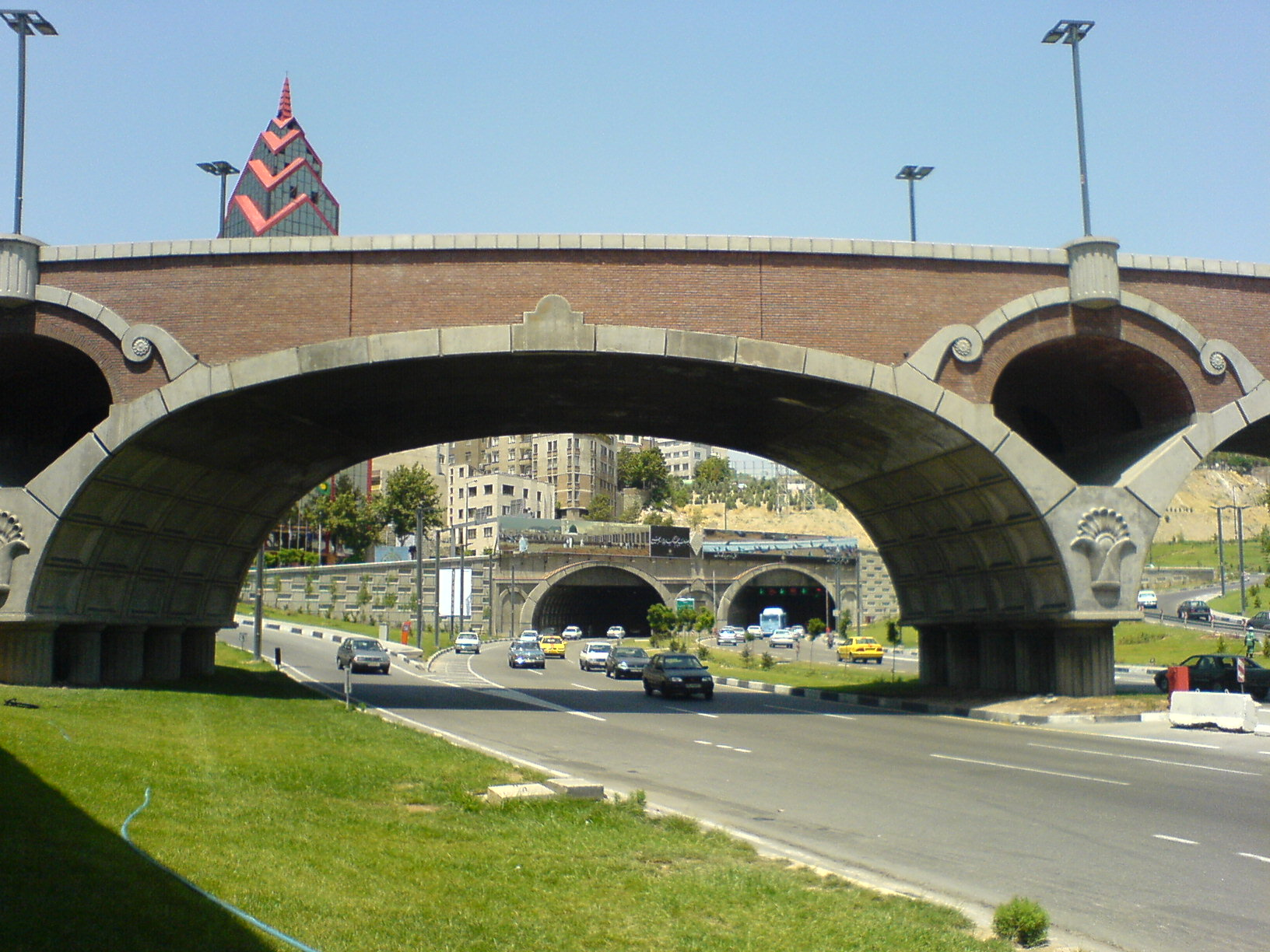 Resalat